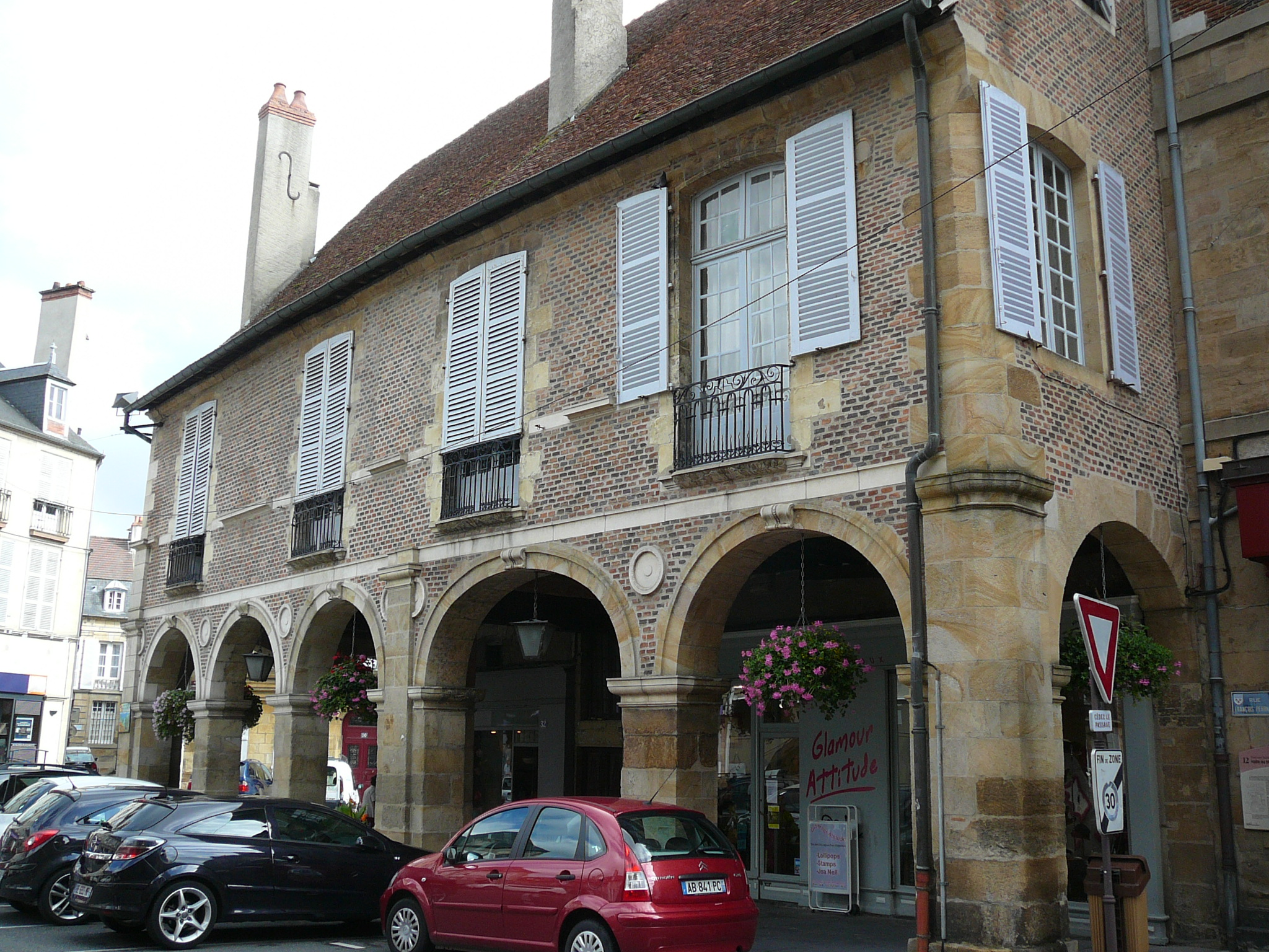 Ancient Halles Moulins